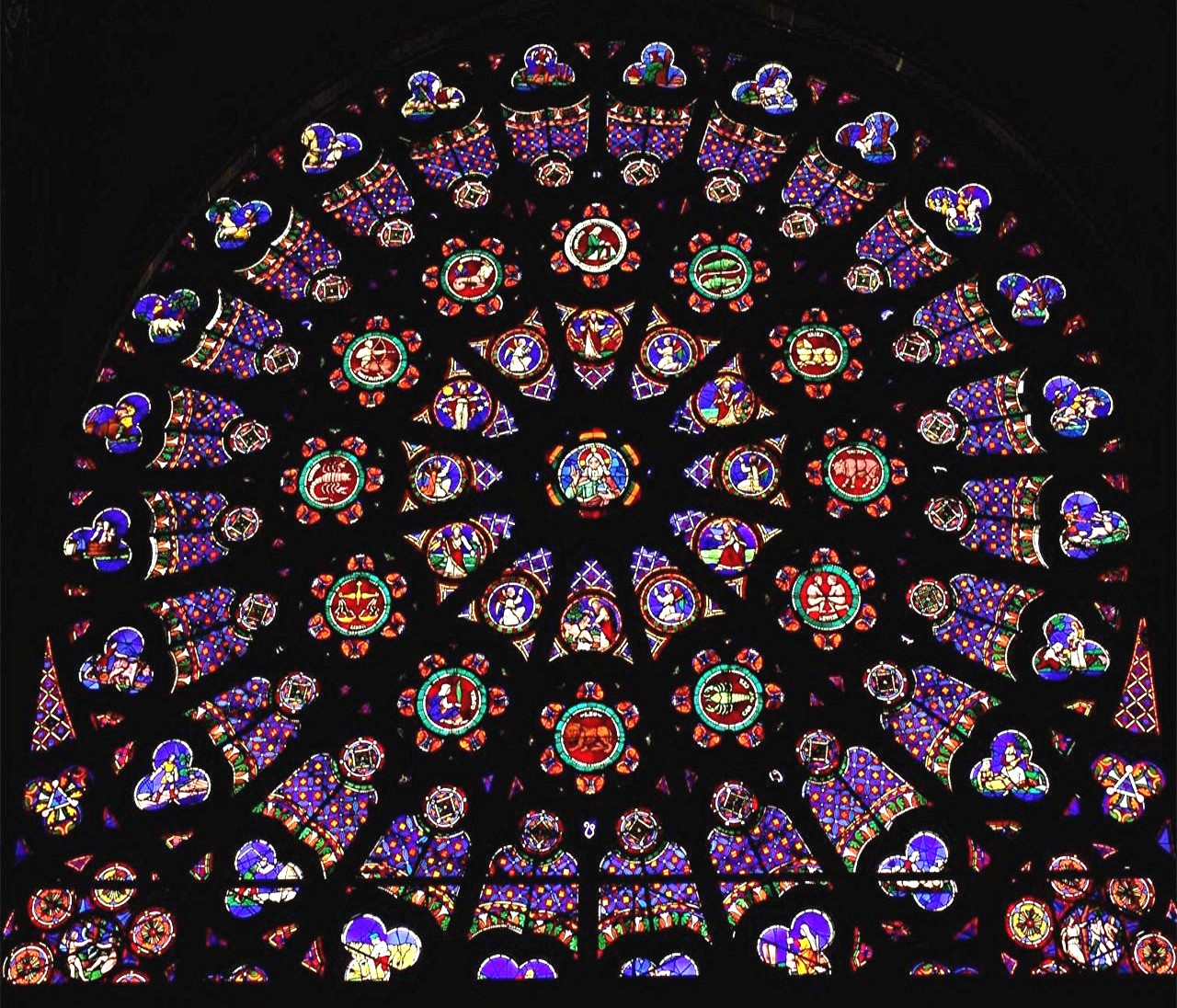 France Paris Saint-Denis: the Basilica of St Denis, North transept Rose window, subject: The Creation, with God at the centre, the six days of Creation, the Zodiac representing the order of the heavens, the labours representing the order of the earth, Adam and Eve eating the fruit and being expelled from Eden.